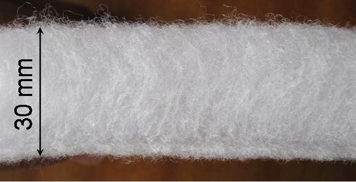 Vertically lapped nonwoven fabric